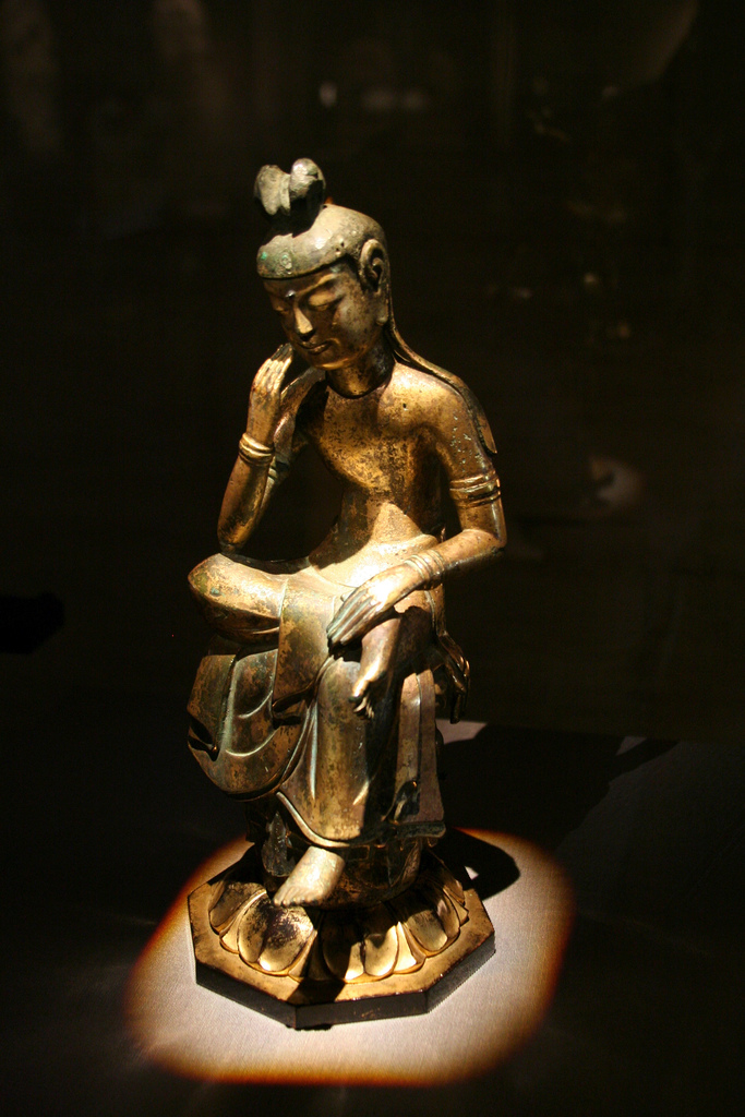 Pensive Bodhisattva Maitreya. Japan, Hakuho period, late 7th c . Gilt bronze, h. with pedestal 31 cm. Tokyo National Museum. Some scholars have suggested that this statue may have been made in Korea during the Three Kingdoms period.